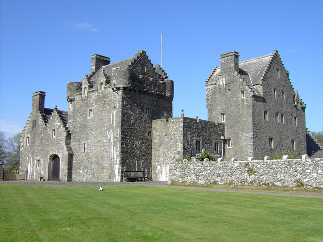 Old Place of Mochrum